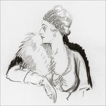 portrait of grace wilson-vandebilt